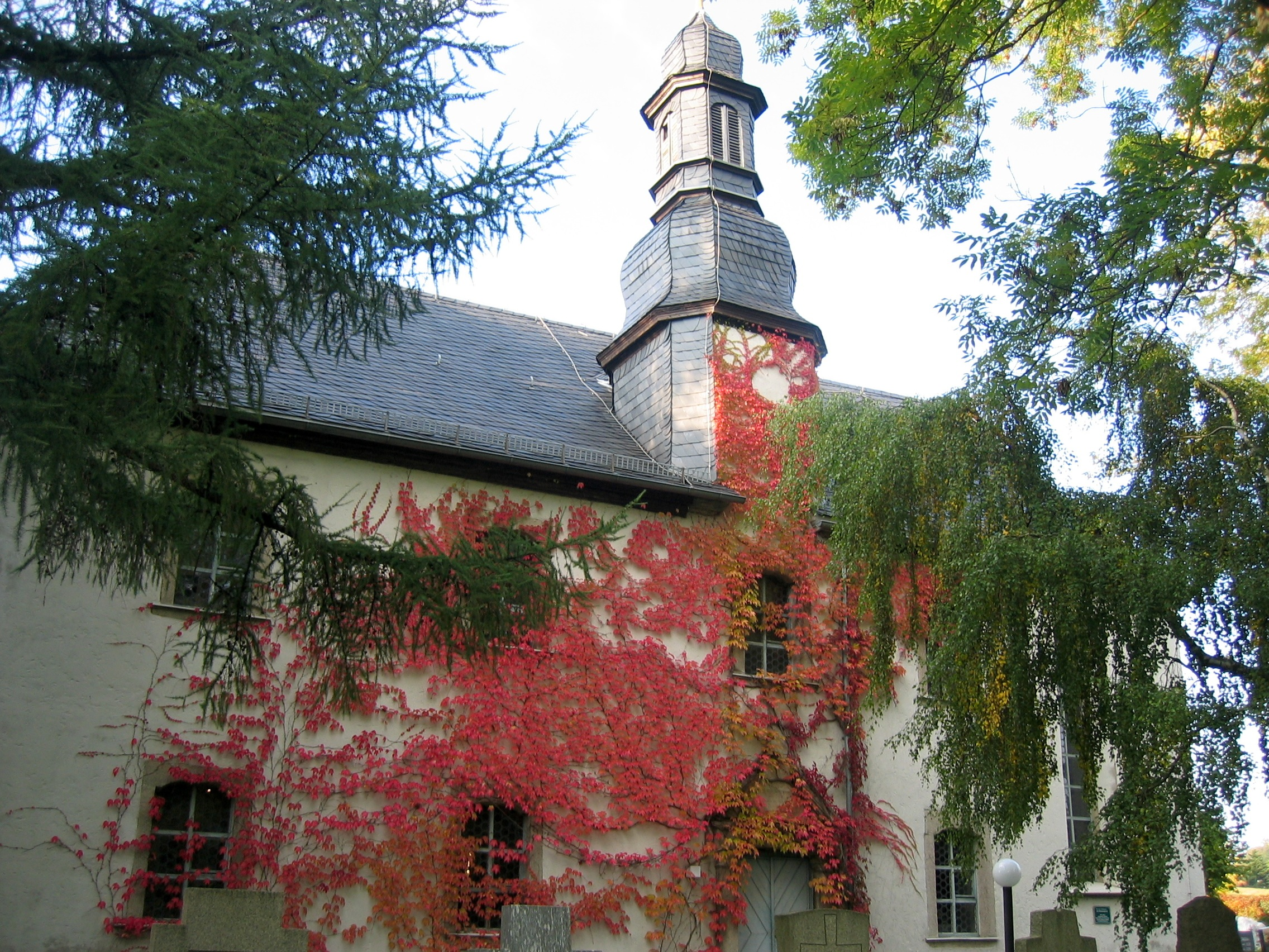 Cemetery Church of Münchberg